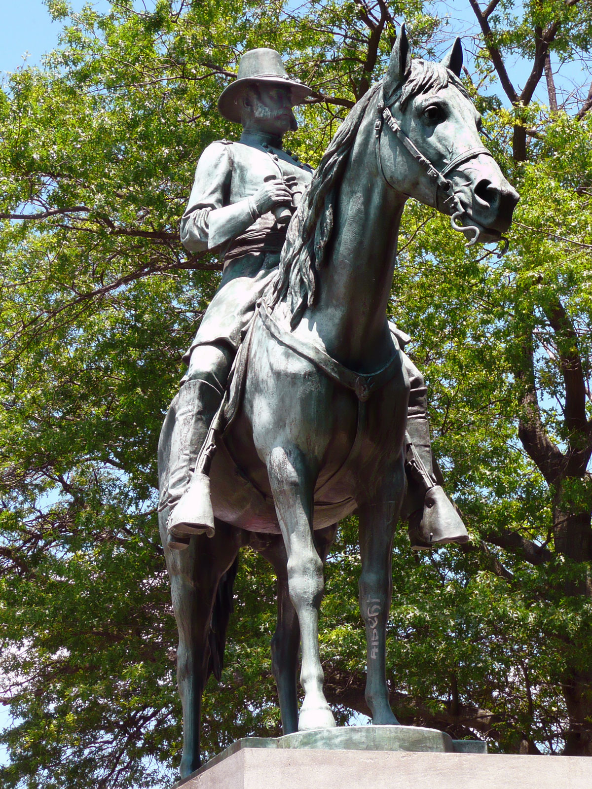 Equestrian monument to Ambrose E. Burnside, Burnside Park, Providence, RI. Photographed by Hal Jespersen, June 2008.